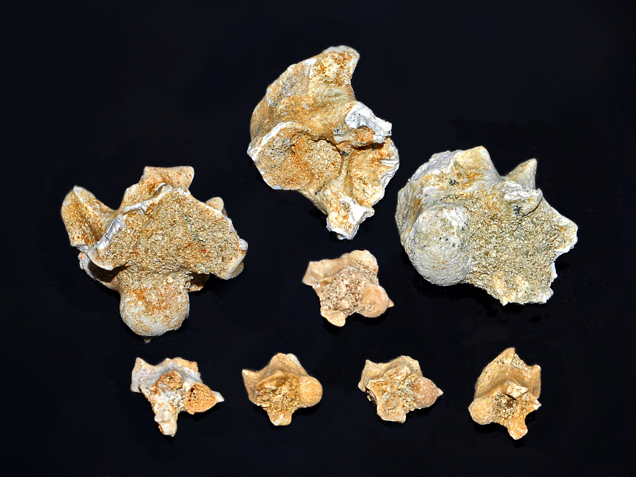 Fossil vertebrae of Palaeophis maghrebianus from Khouribga (Morocco)